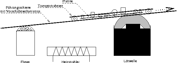 Wave soldering